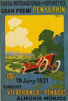 Cartell Gran Premi Penya Rhin al 1921 del Circuit de Vilafranca del Penedès